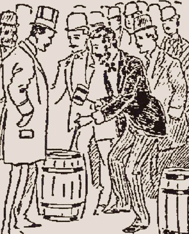 Woodcut showing World Columbian's Exposition Company president Harlow Higinbotham opening the first kegs of Columbian Exposition half dollars which had been sent from the United States Mint at Philadelphia. This took place on 12/19/1892.